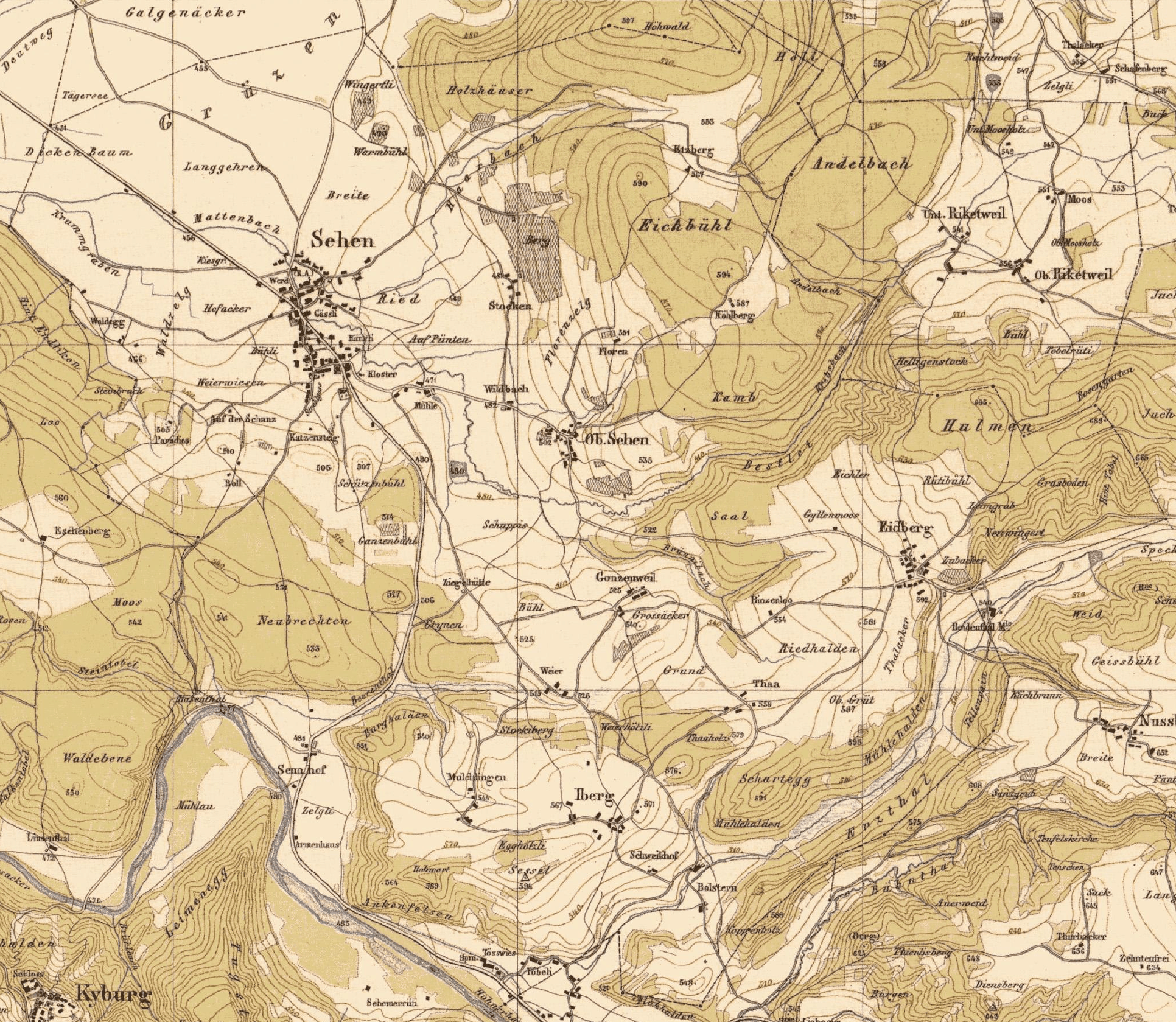 map of Johannes Wild ("Wildkarte") from around 1850; detail of the back then independent municipality Seen.